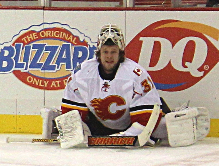 Calgary Flames goalie Karri Ramo warms up prior to a December 21, 2013, game against the Pittsburgh Penguins at Consol Energy Center in Pittsburgh, PA.